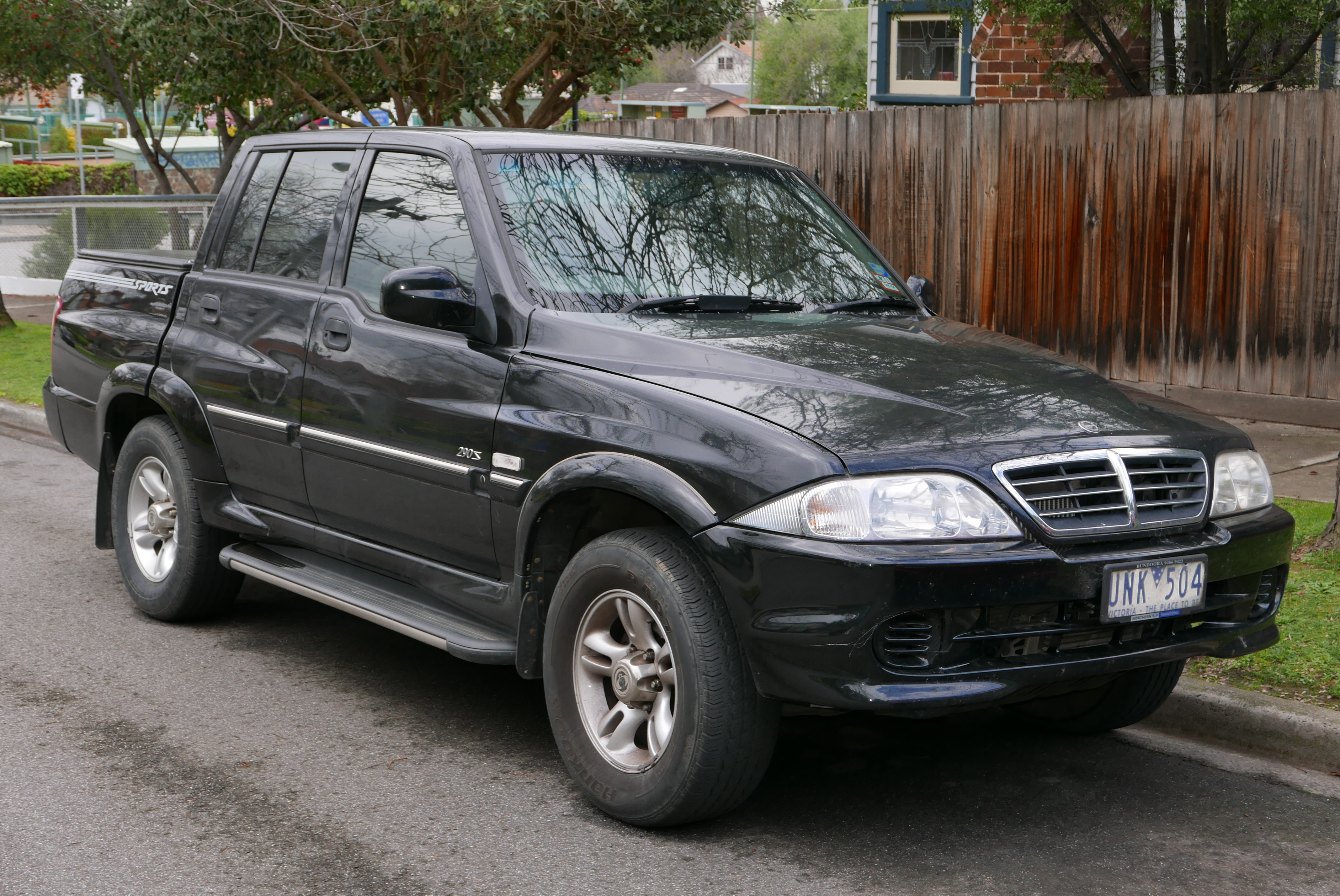 2006 SsangYong Musso Sports utility. Photographed in Ivanhoe, Victoria, Australia. Vehicle registration enquiry resultsJurisdictionVictoriaRegistrationUNK504Chassis codeKPAWA2EDS6P417470Engine code66292012163477Compliance date2006-12Year of manufacture2006